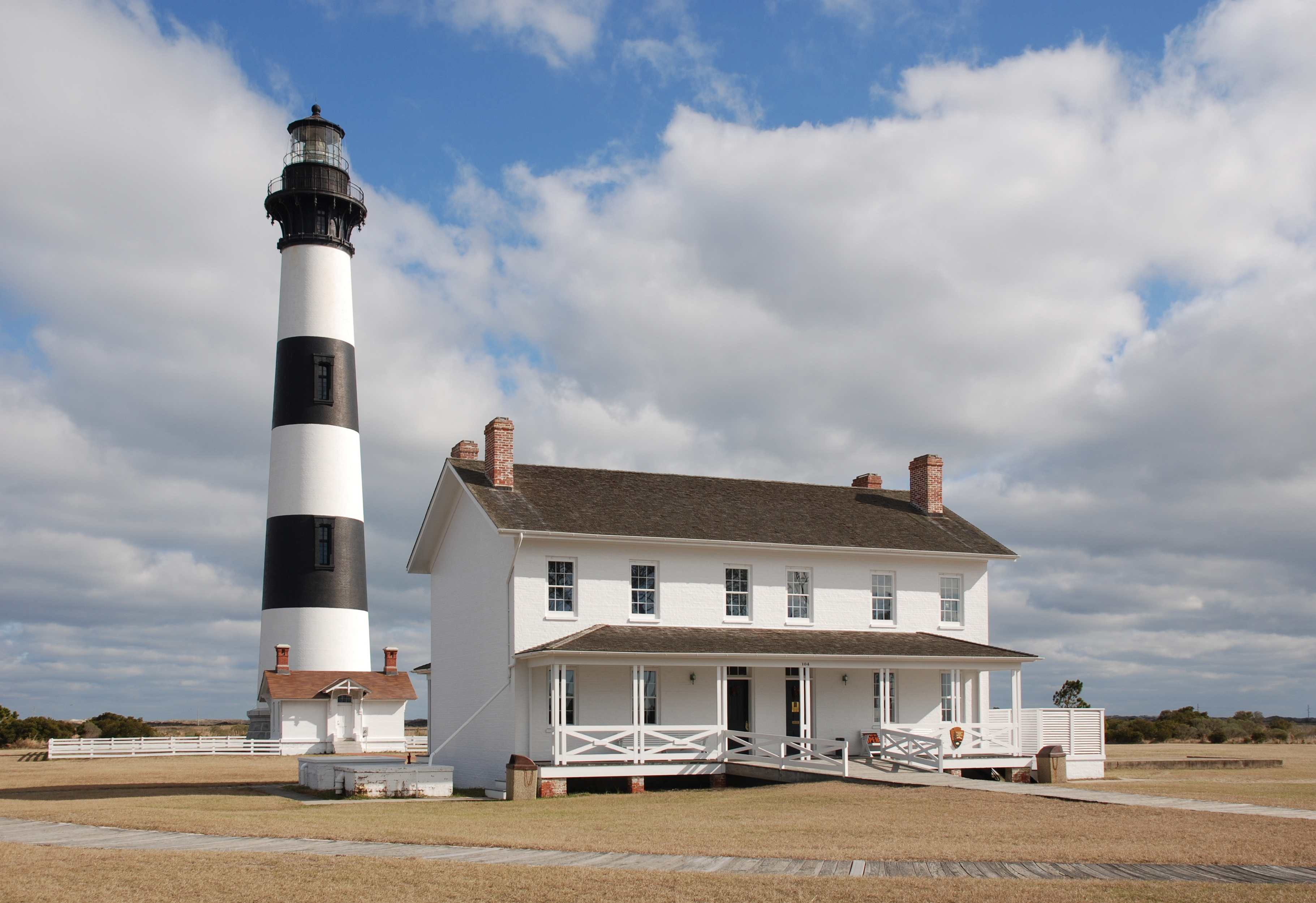 Bodie Island Lighthouse, Outer Banks, North Carolina (United States).